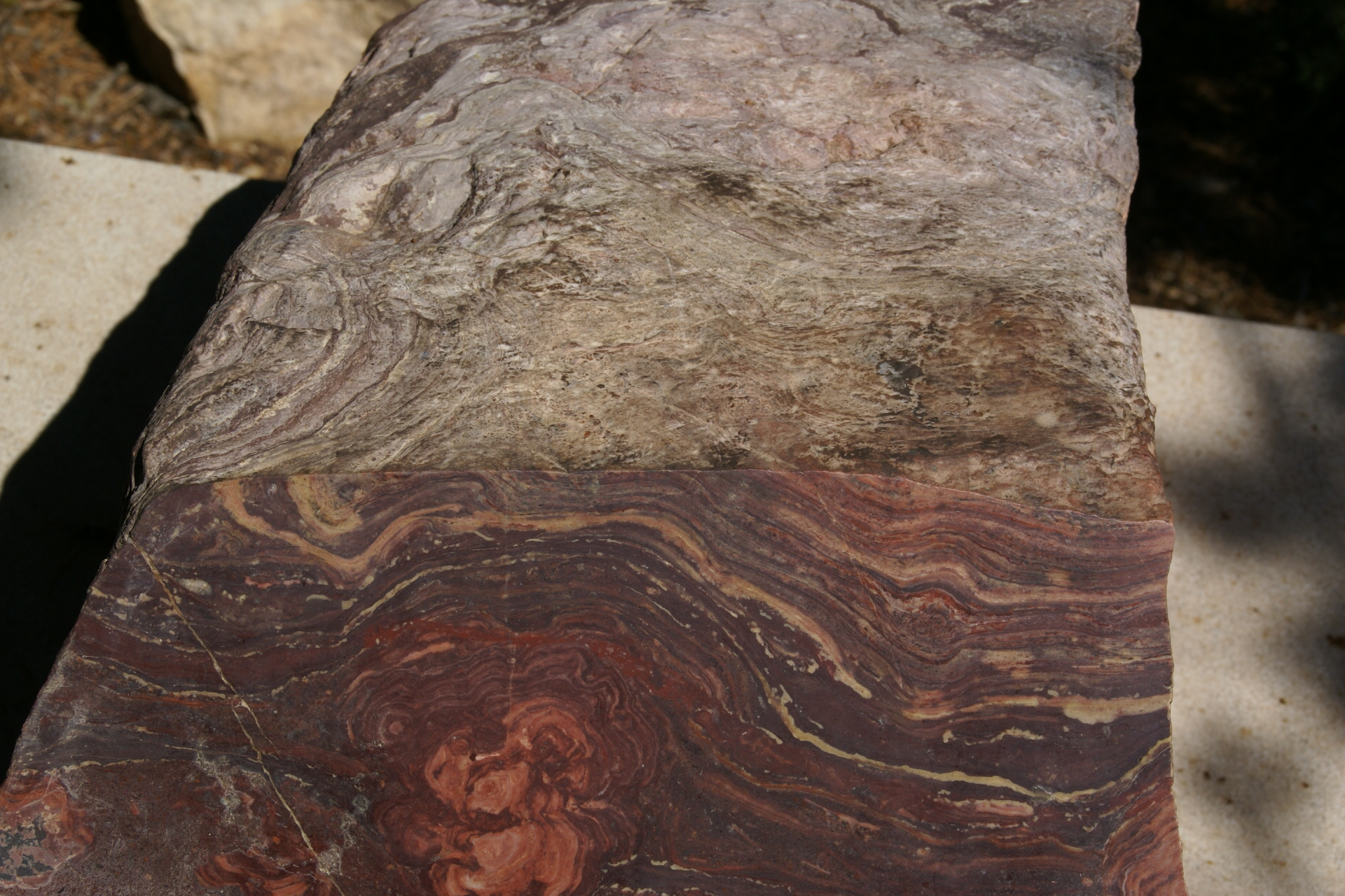 Supergroup stromatolite exhibit at Trail of Time near Yavapai Point, Grand Canyon, Arizona, USA